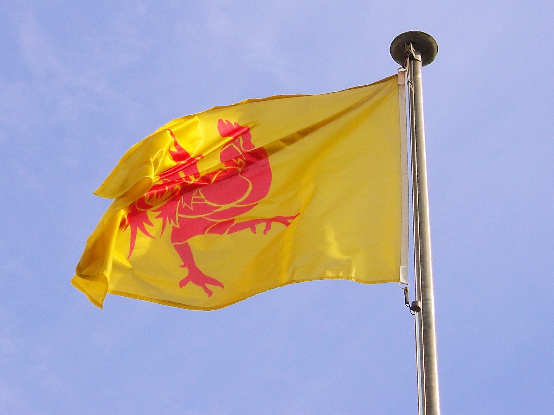 Walon: Drapea del Walonreye